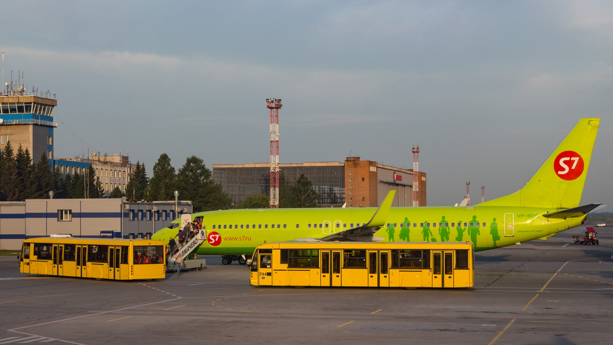 Boeing 737 of S7 airlines with MAZ-171 apron buses in front at Tolmachevo airport